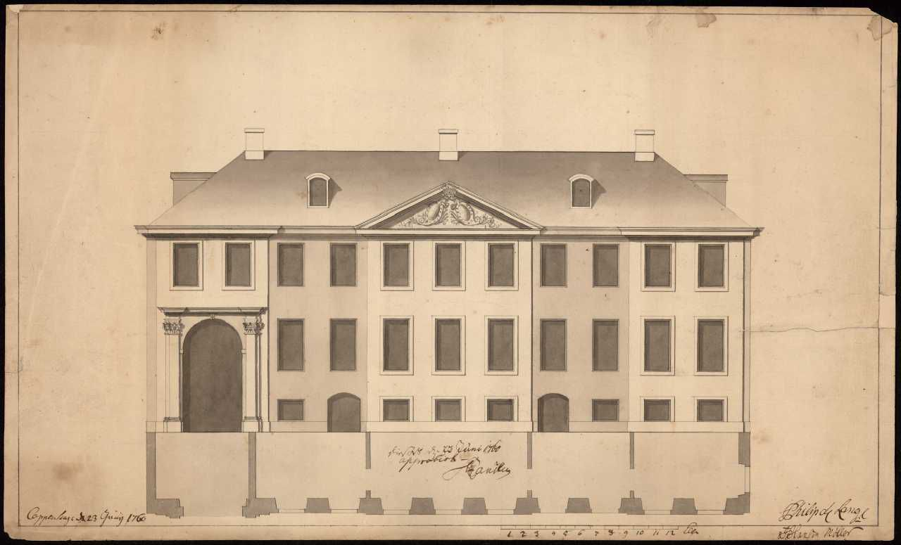 Stephen Hansens Palæ at Strandgade 93-95 in Helsingør, Denmark